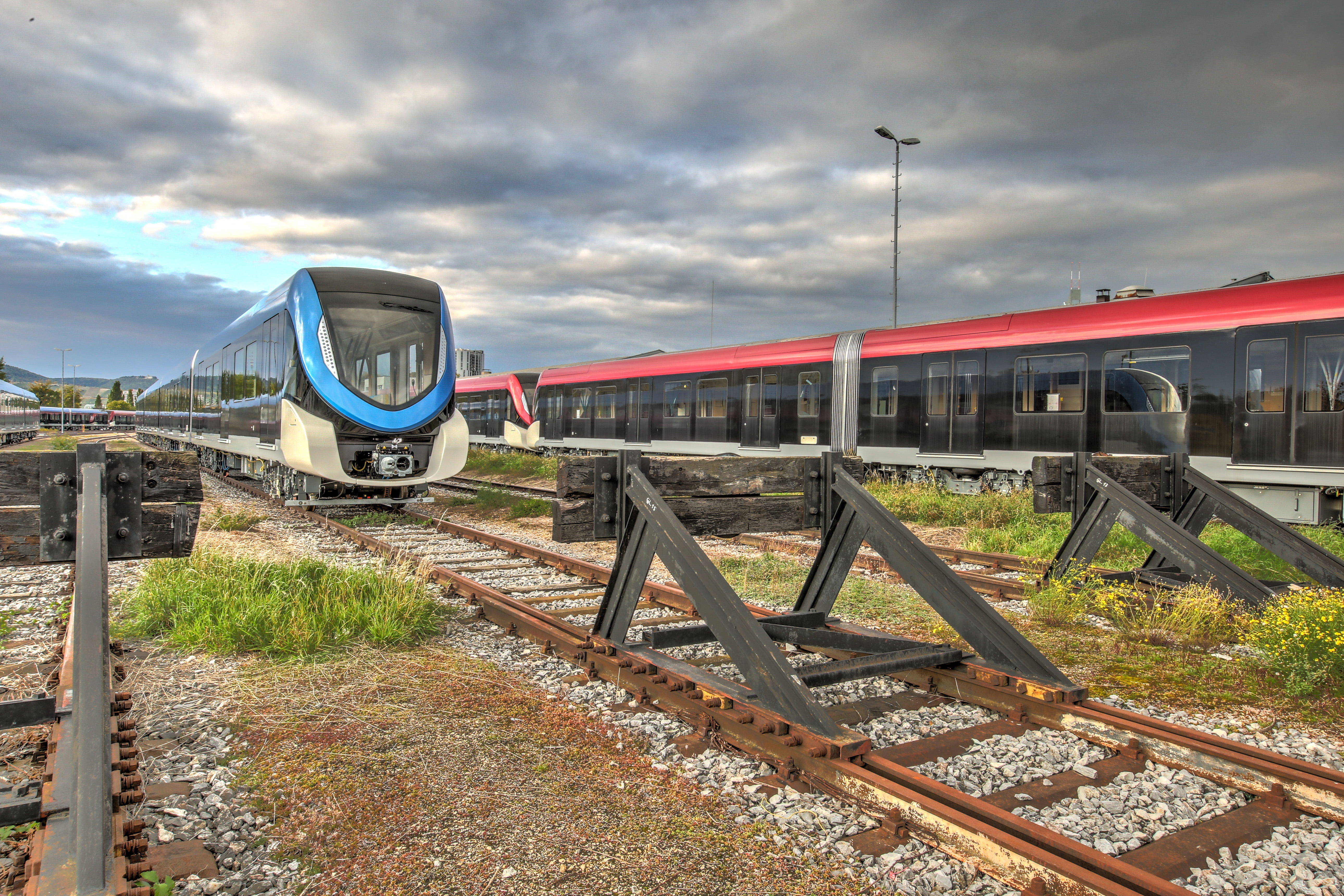 The Northwest Railway Station in Brigittenau, the XX. district of Vienna / Austria / EU. At this time were at the station in Vienna built by Siemens metro cars for the subway in Riyadh, Saudi Arabia. Location of the photograph at about Wallensteinstraße, at the end of Lagerstraße 1.